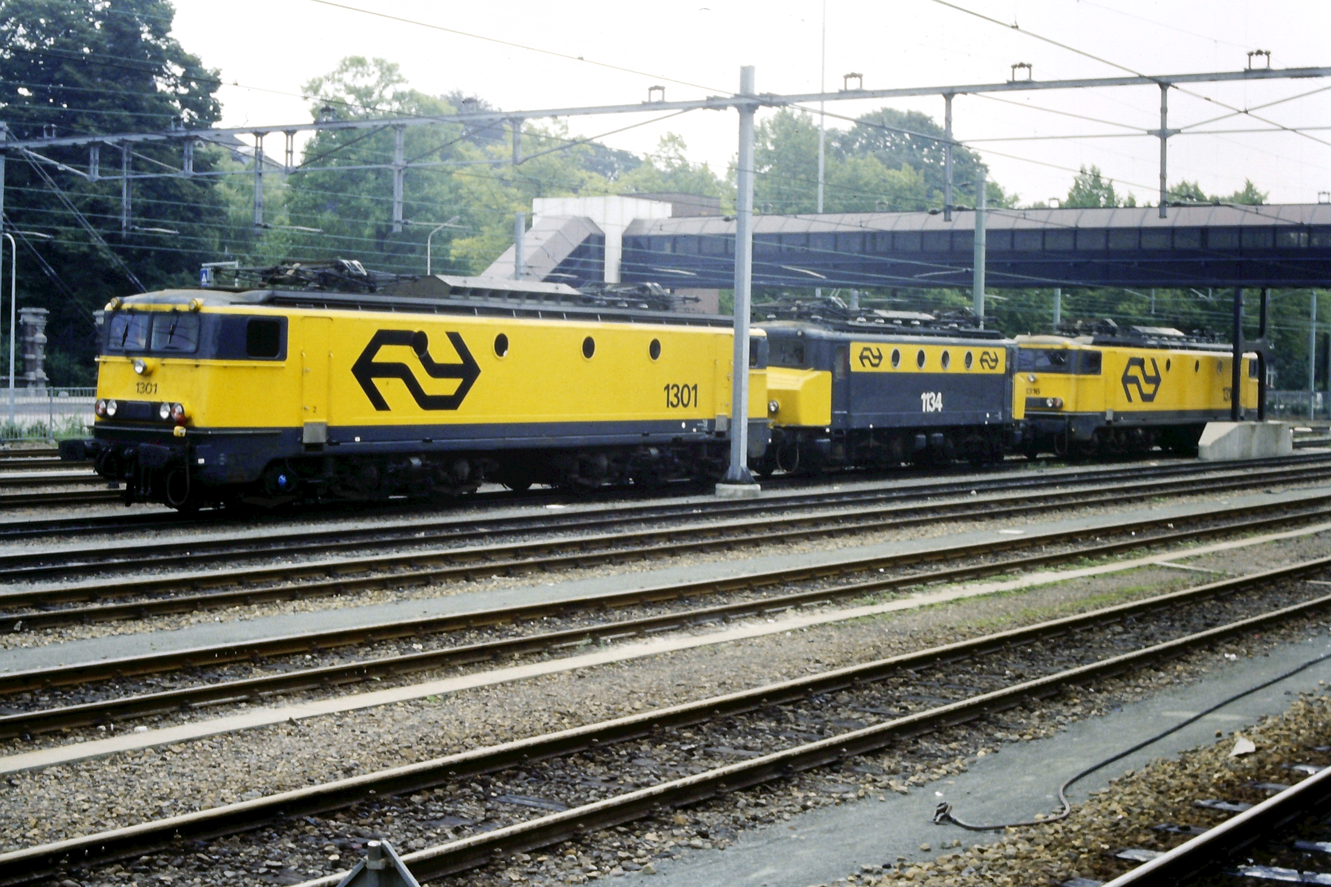 Scanned from slide.